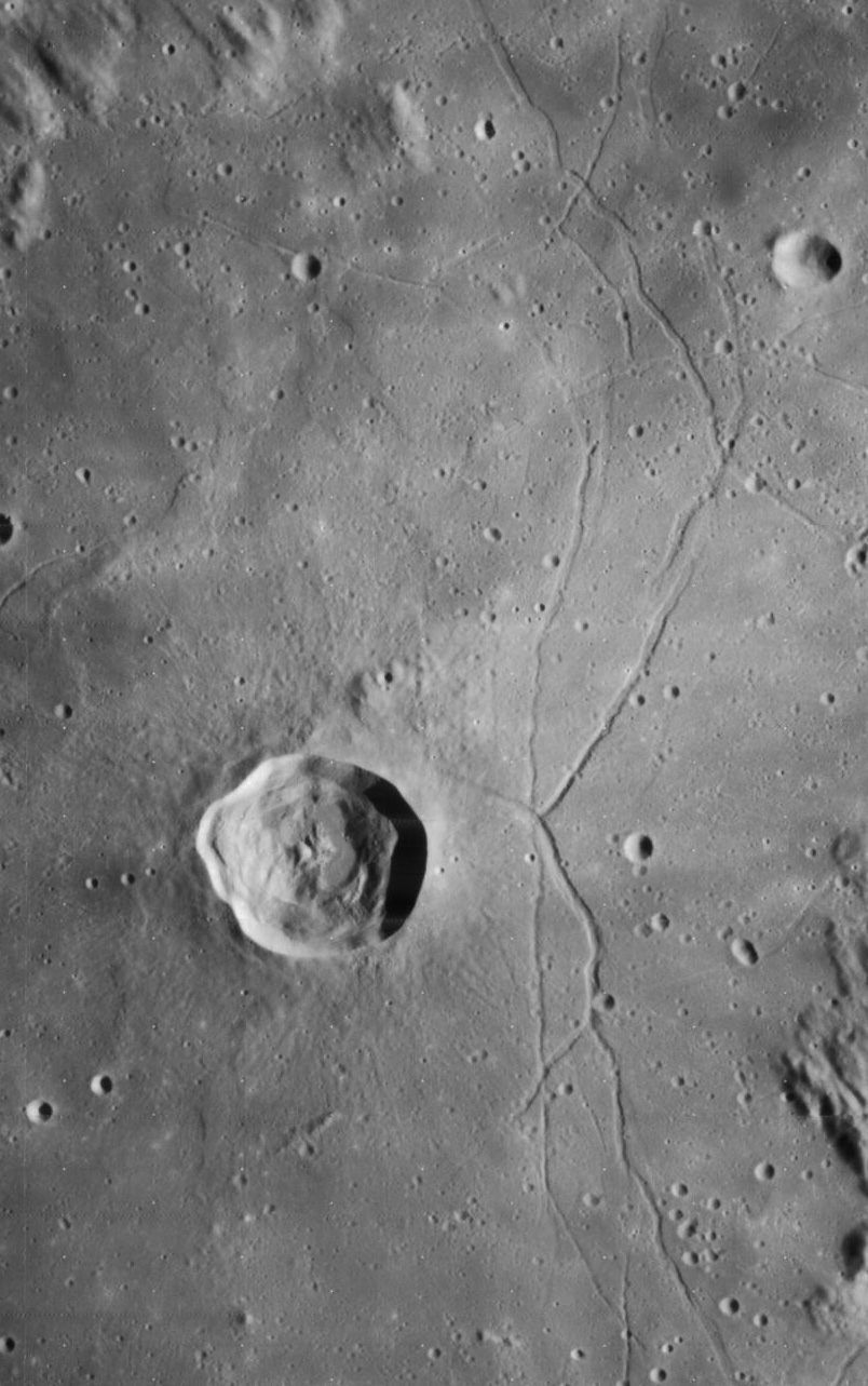 Triesnecker and Rimae Triesnecker, on the moon.